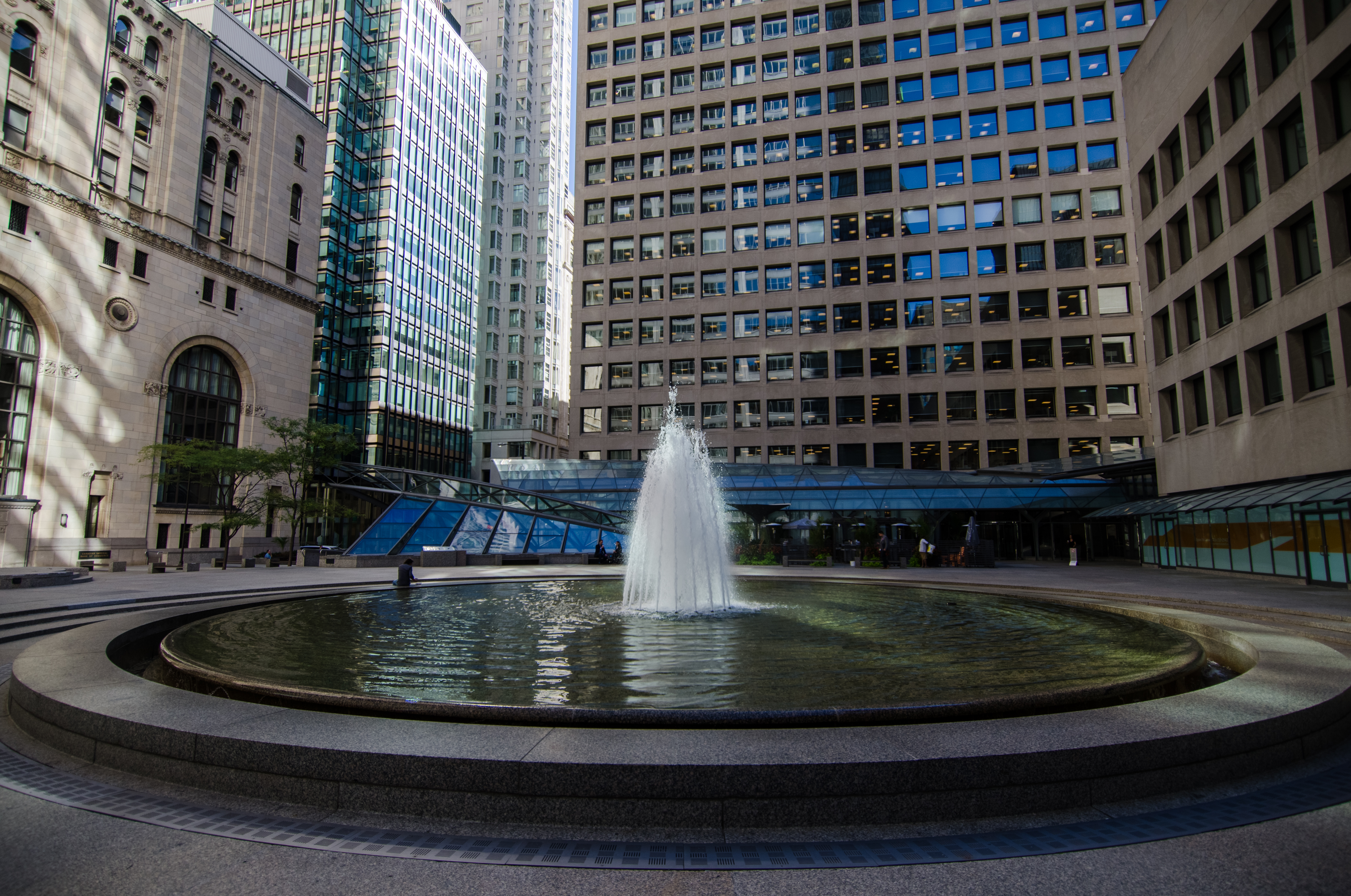 Seen in Flashpoint episode #101.